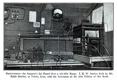 1 kW station built by Mr. Ralph Batcher, of Toledo, Iowa, with the assistance of the 1916 edition of this book